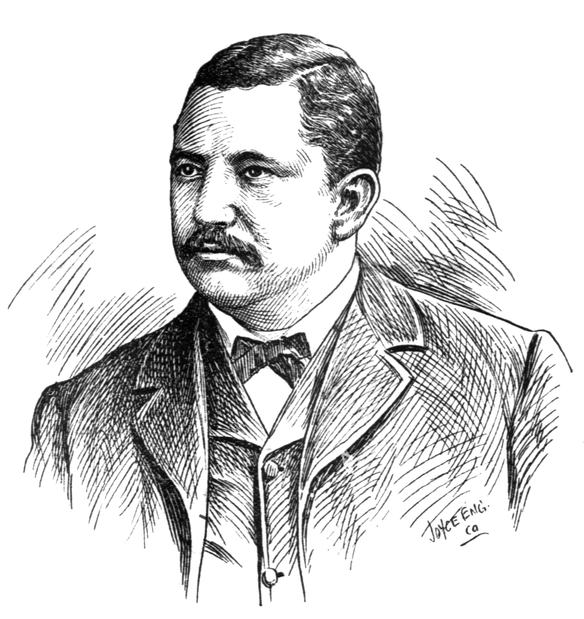 Drawing of Professor James Benson Dudley, 1859-1925. Pictured as President of North Carolina Agricultural and Technical State University, at the time known as "A. and M. College" for "Agricultural and Mechanical College". Image cropped from version in Library of Congress National Endowment for the Humanities, online at